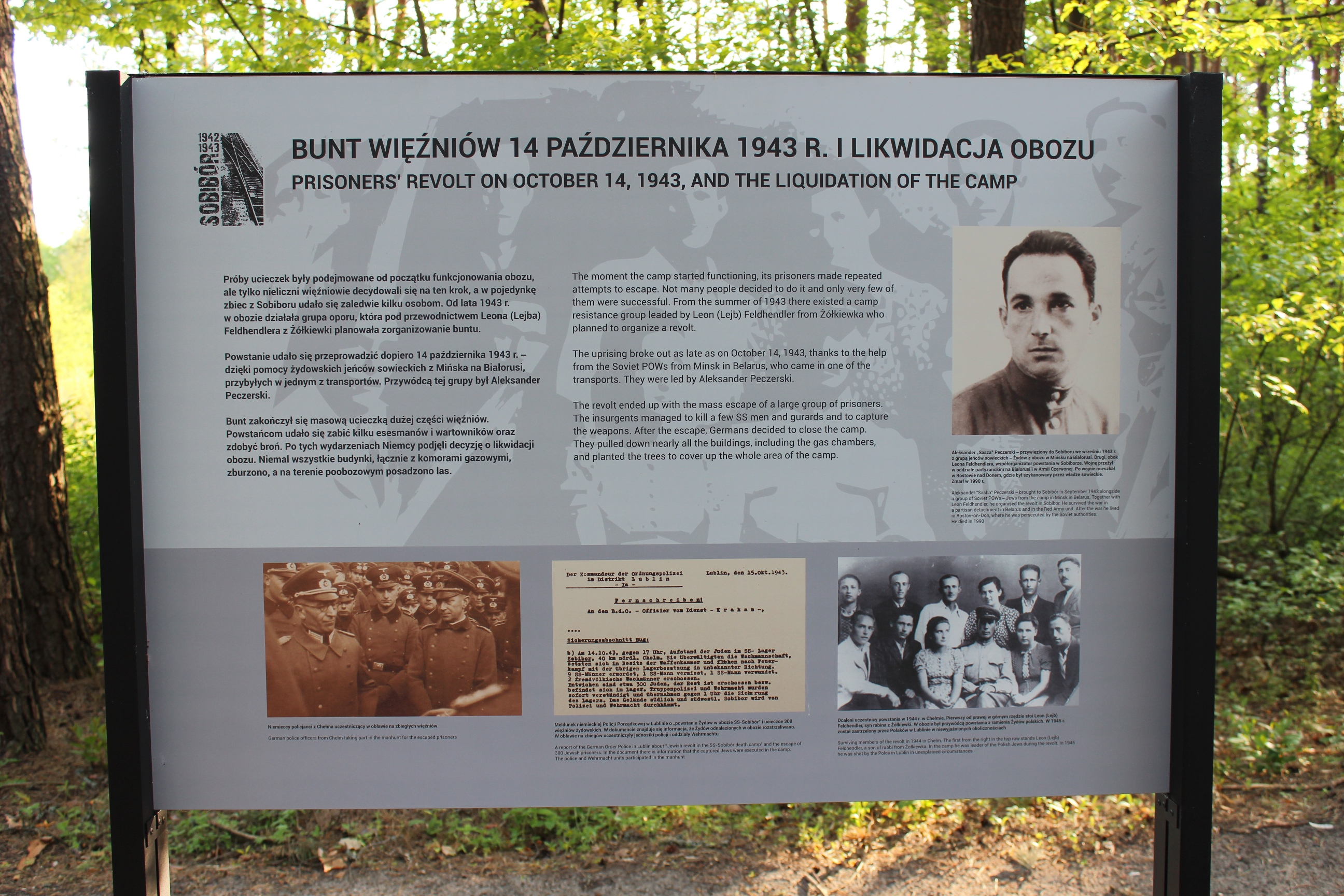 Sobibór german extermination camp